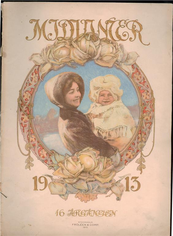 Cover of the Swedish Christmas magazine "Midvinter" from 1913